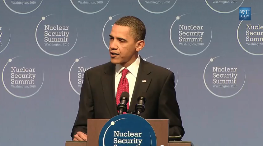 President Obama speaking at the Nuclear Security Simmit, Washington 2010 from West Wing Week episode 03 "The Interpreter's Lounge"